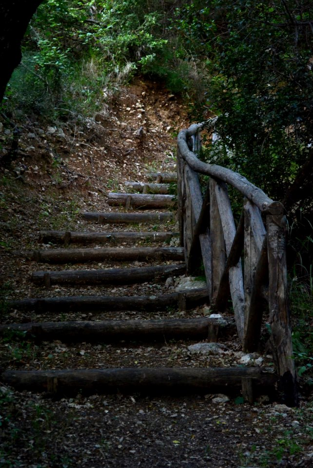 Salakos valley, Rhodes